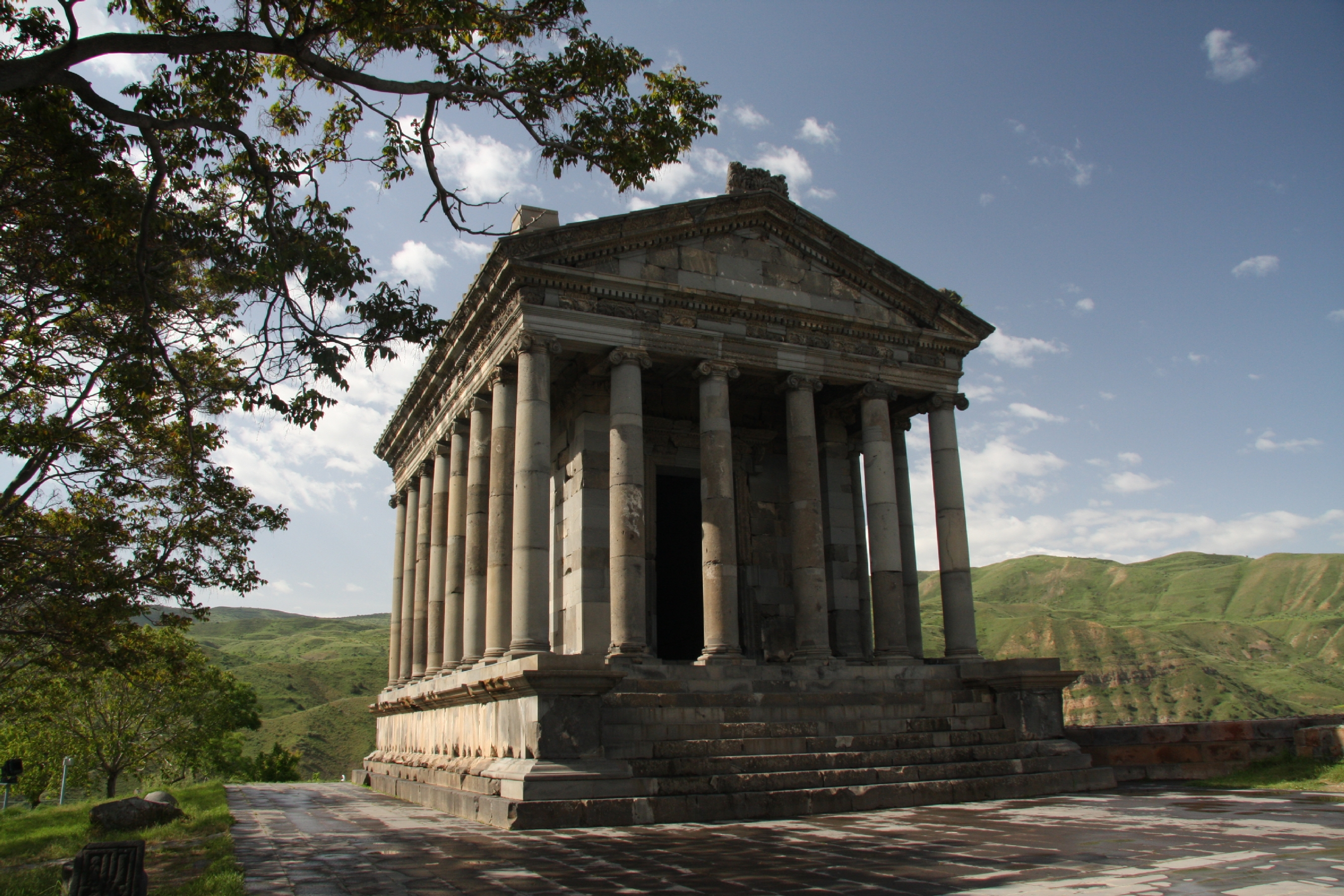 Գառնիի Տաճար 21/4.2